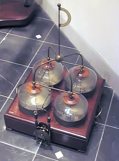 Photo of 4 Leyden jars, at Museum Boerhaave, Leiden, Netherland, December 2003.